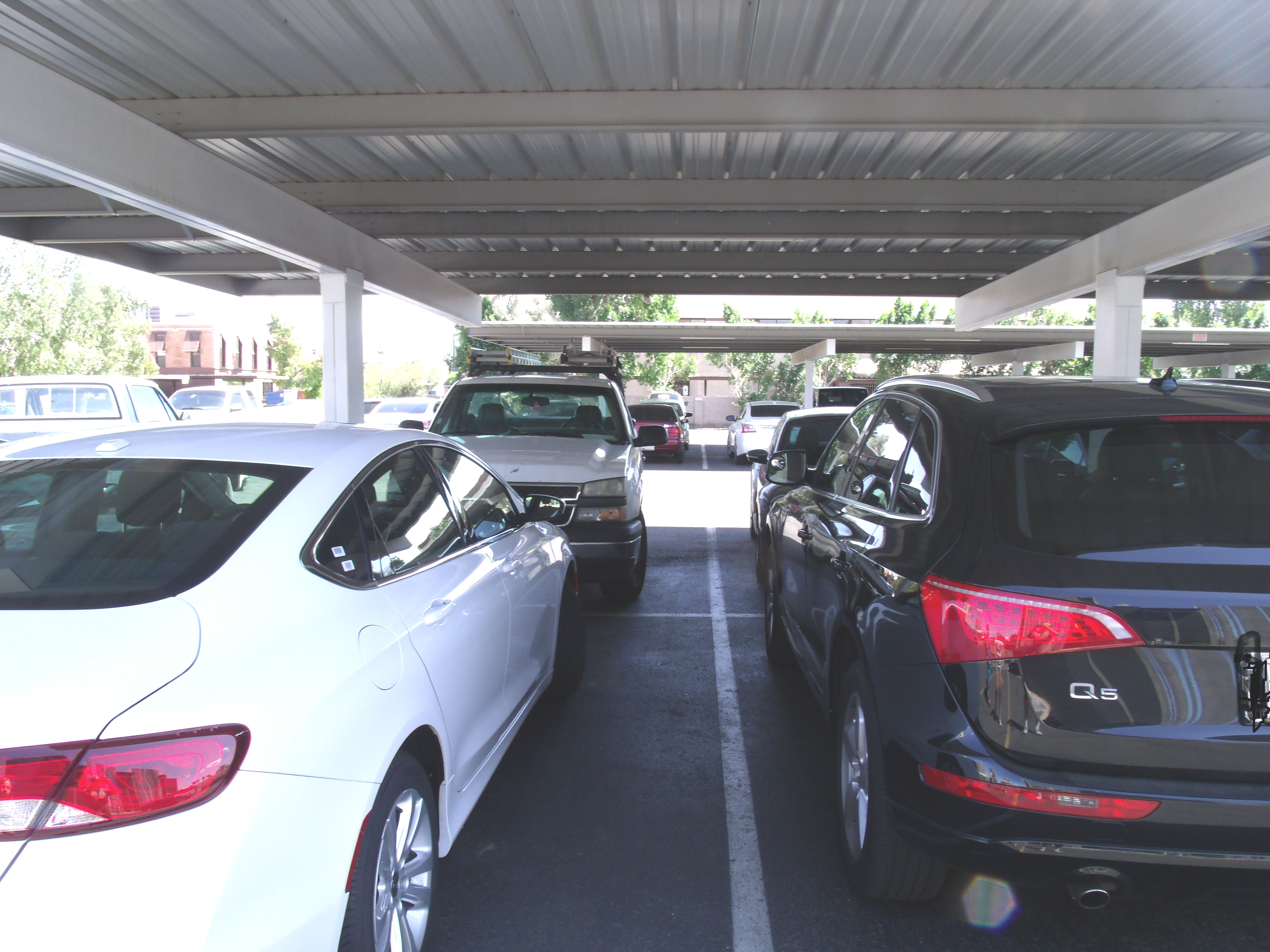 Parking space in the south parking area on 4th Avenue of the Hotel Clarendon (now called the Clarendon Hotel) where on June 2, 1976, Arizona Republic journalist Don Bolles was murdered. John Harvey Adamson a prospective informant placed six sticks of dynamite under Bolles car. The parking space is now a covered parking. Arizona republic